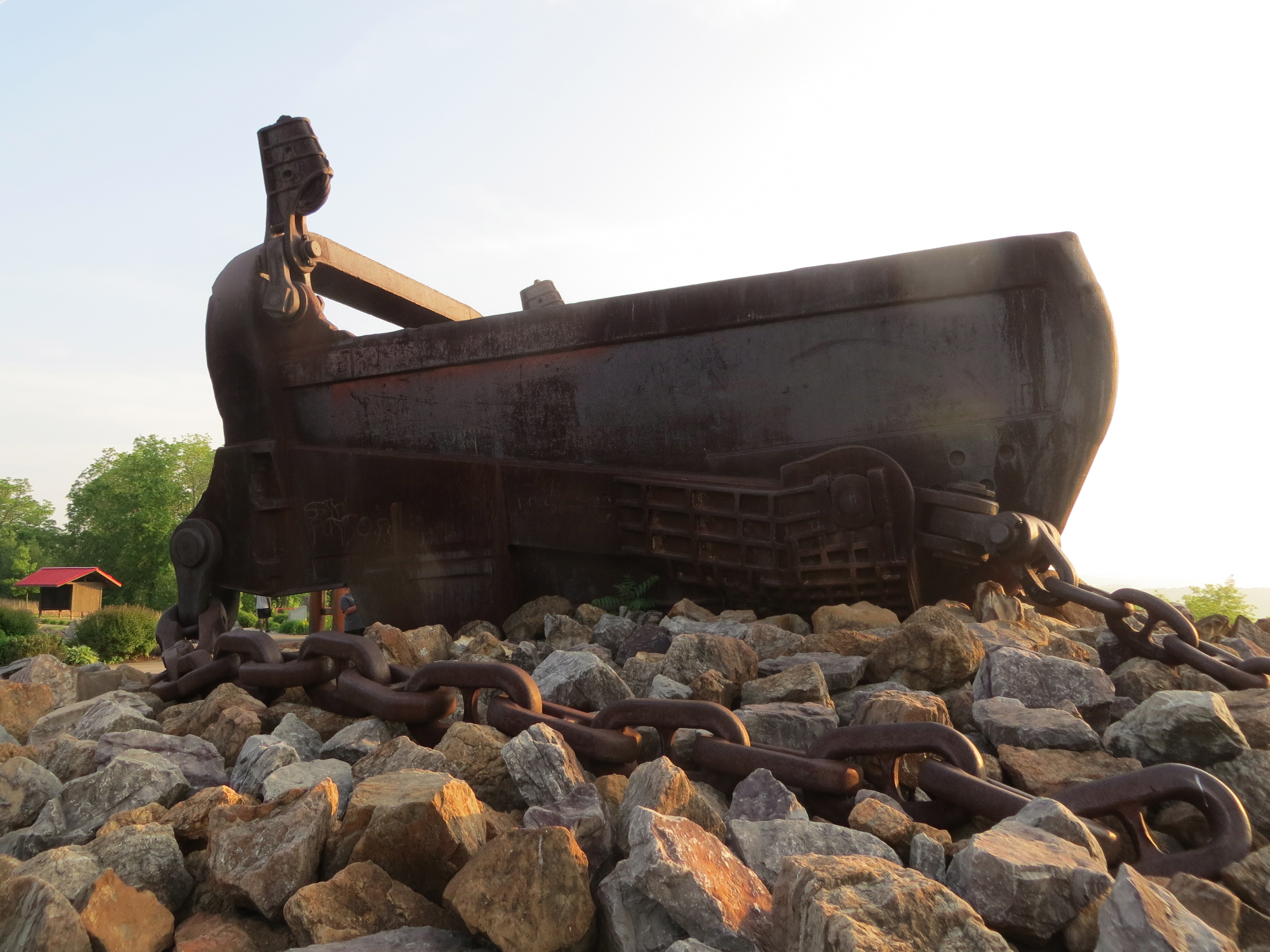 The bucket from the Big Muskie, the largest single-bucket digging machine ever created.